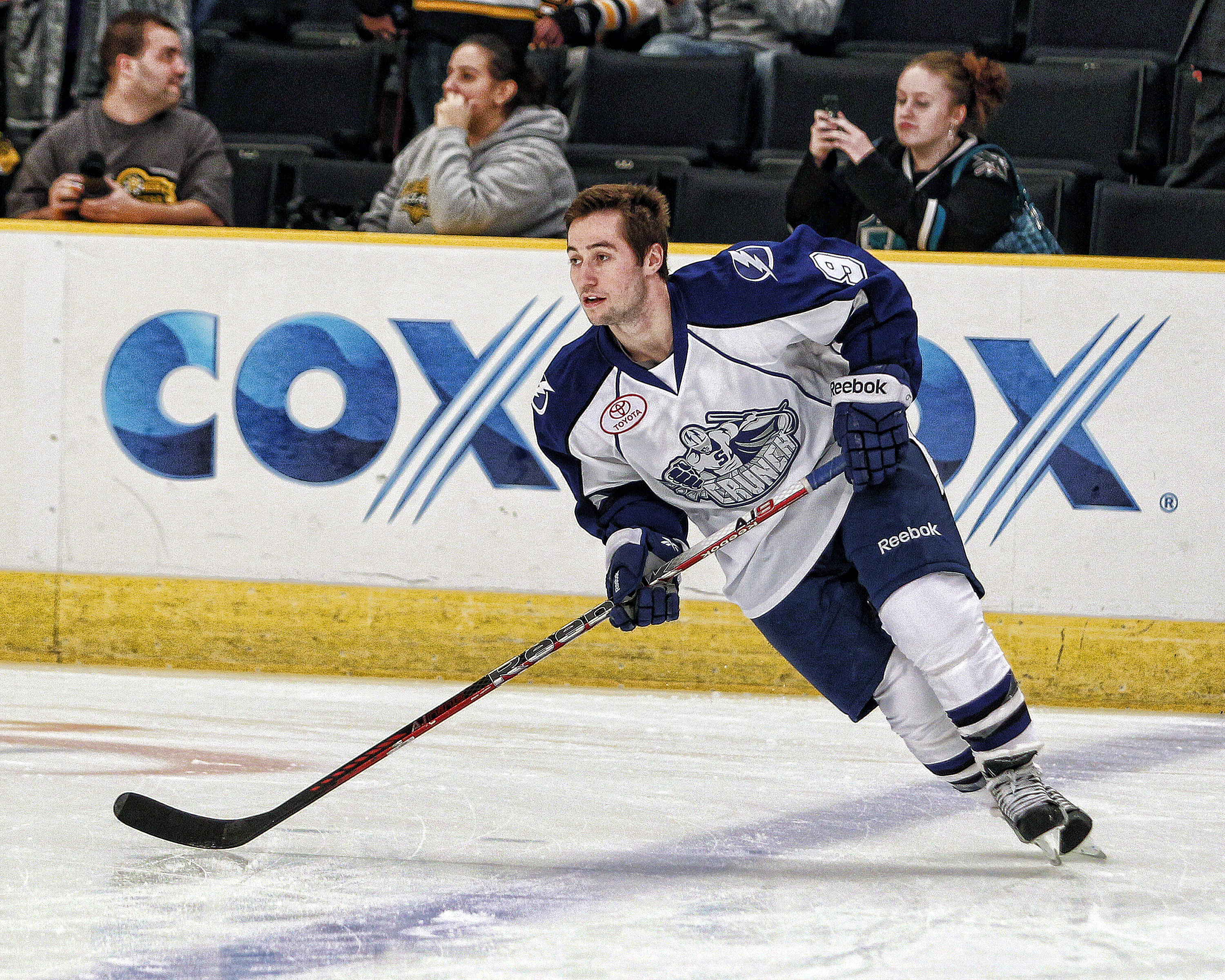 Johnson2 American Hockey League (AHL). 2013 All-Star Skills Competition. Taken on January 27, 2013.